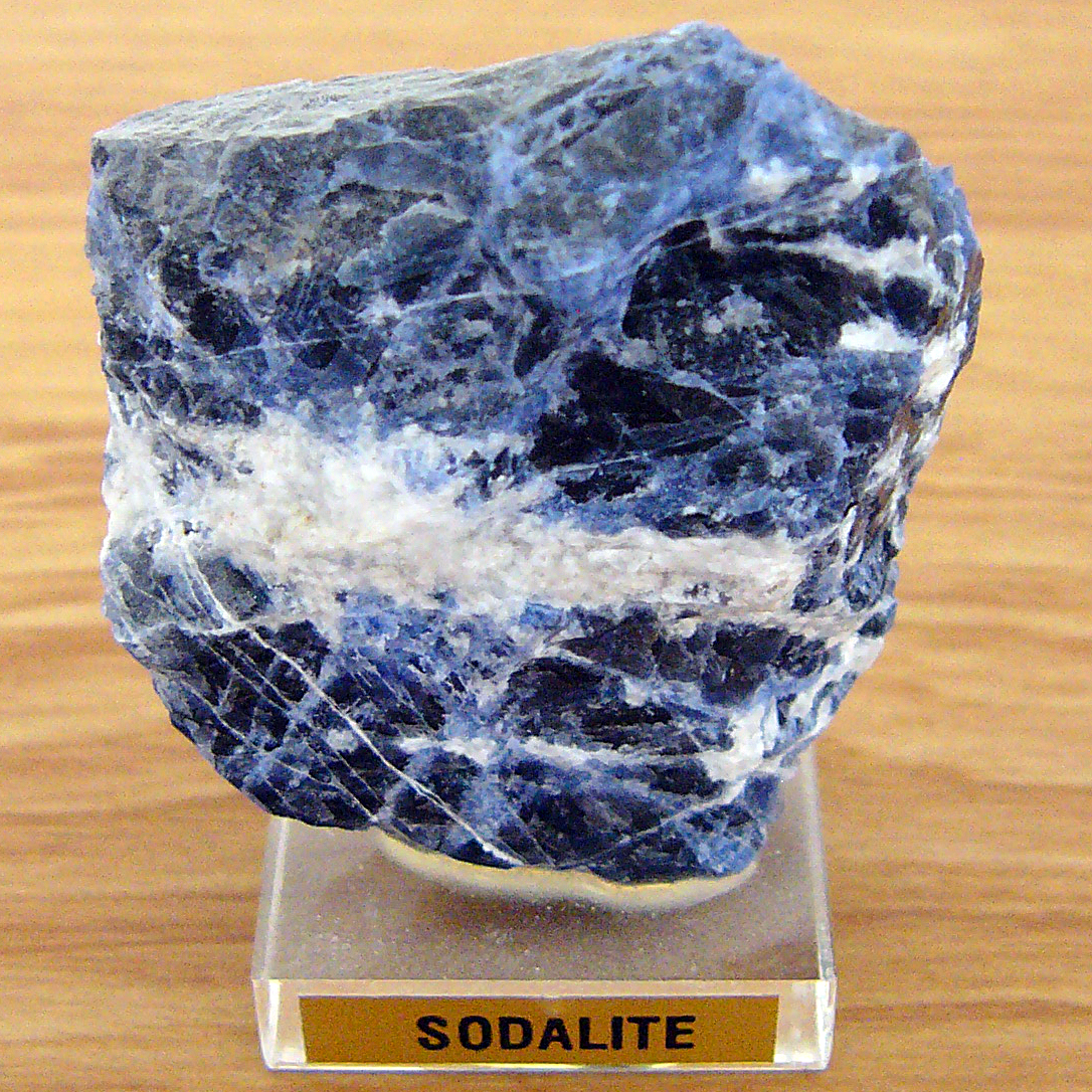 Sodalite is a rich royal blue mineral.